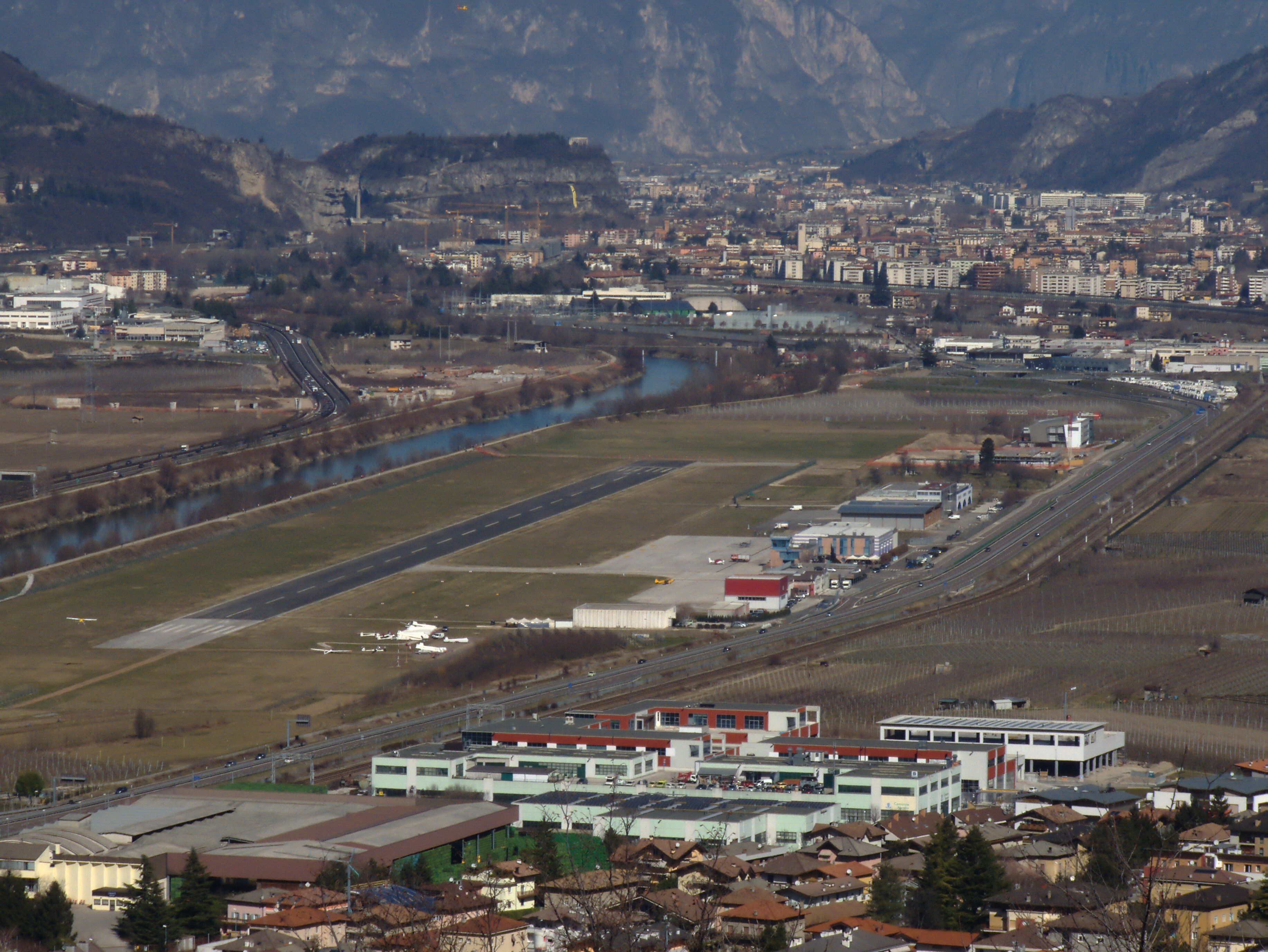 Trento (Italy): the Gianni Caproni airport, seen from the Obere Batterie Mattarello.